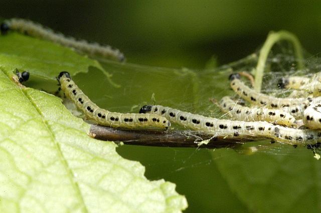 Picture taken in Commanster, Belgian High Ardennes . Species: Yponomeuta evonymella caterpillars